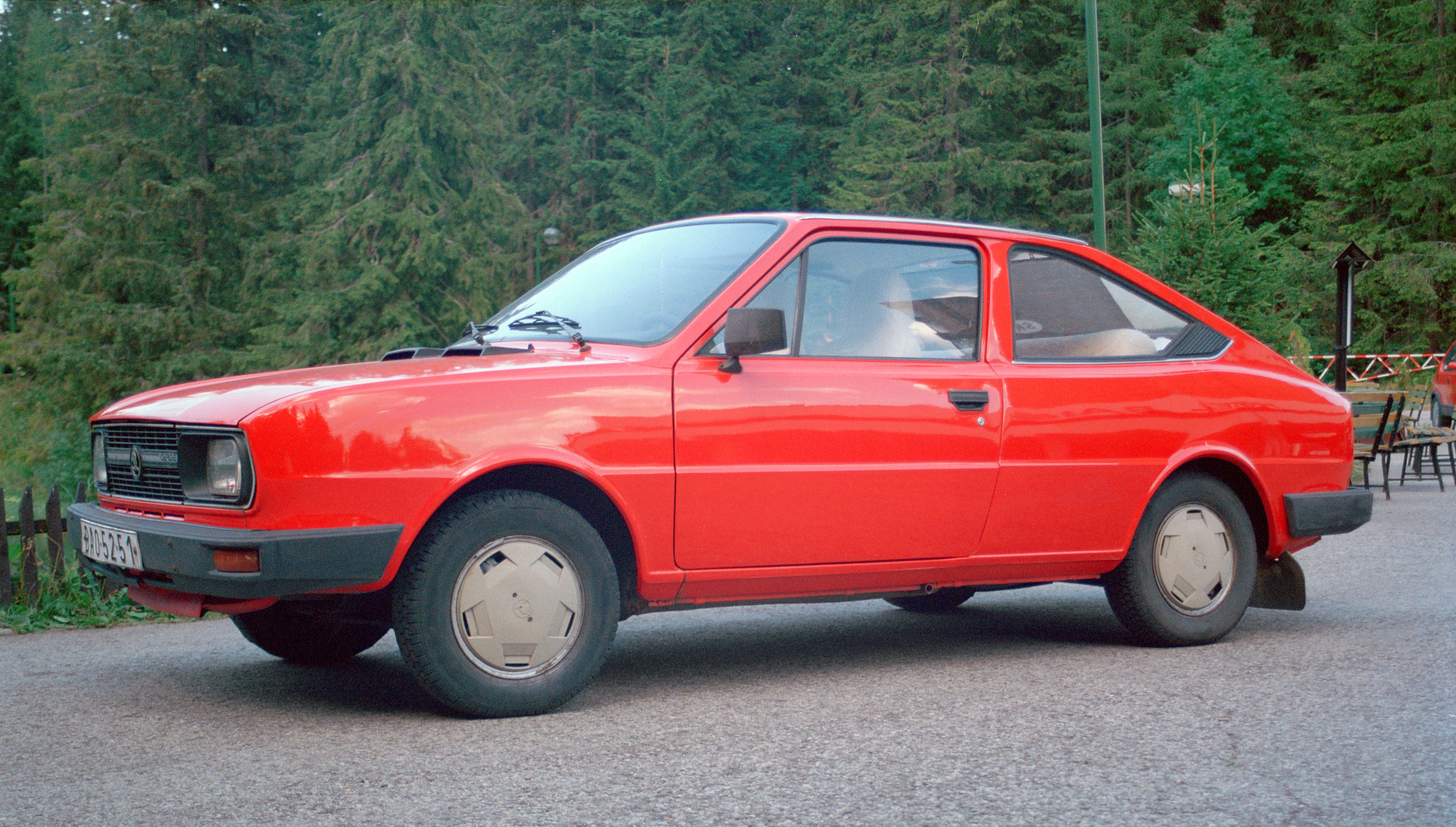 Škoda Rapid own picture, taken in summer 2000